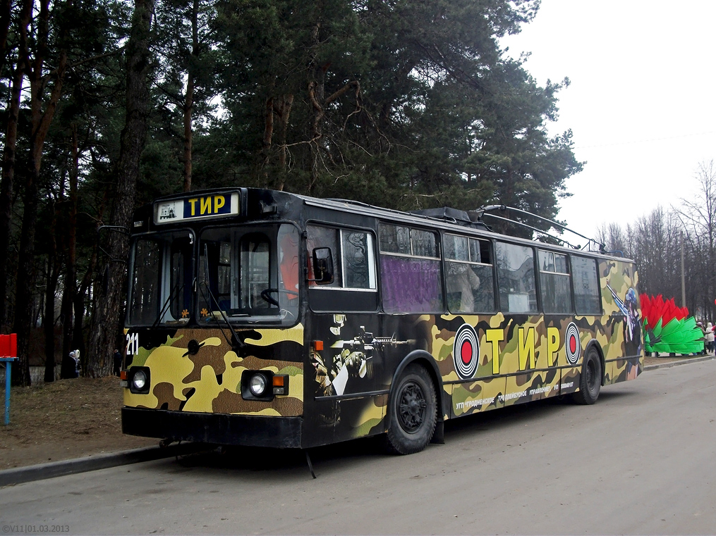 Shooting gallery trolleybus in Hrodna